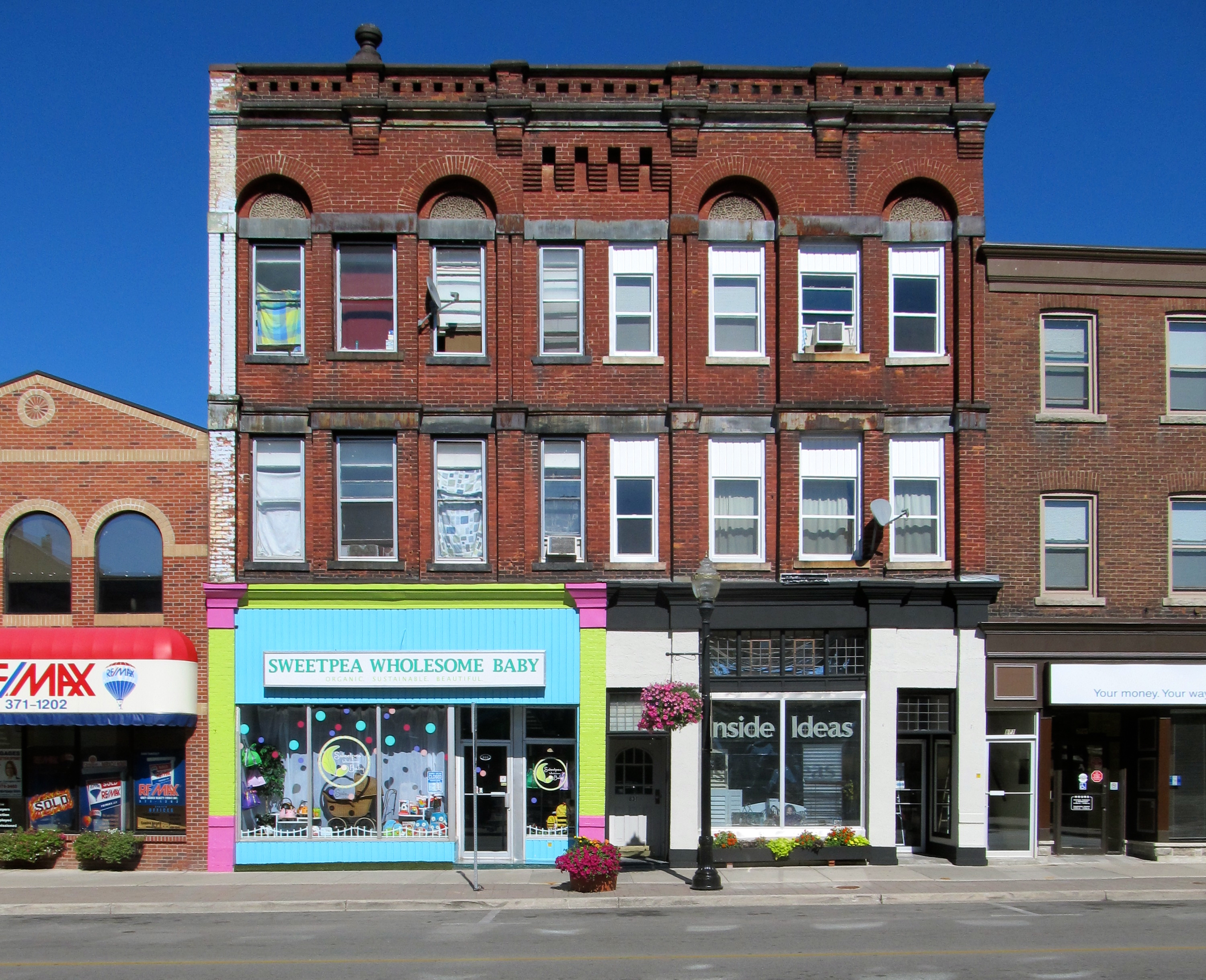 Building on 2nd Avenue in Owen Sound, Ontario.